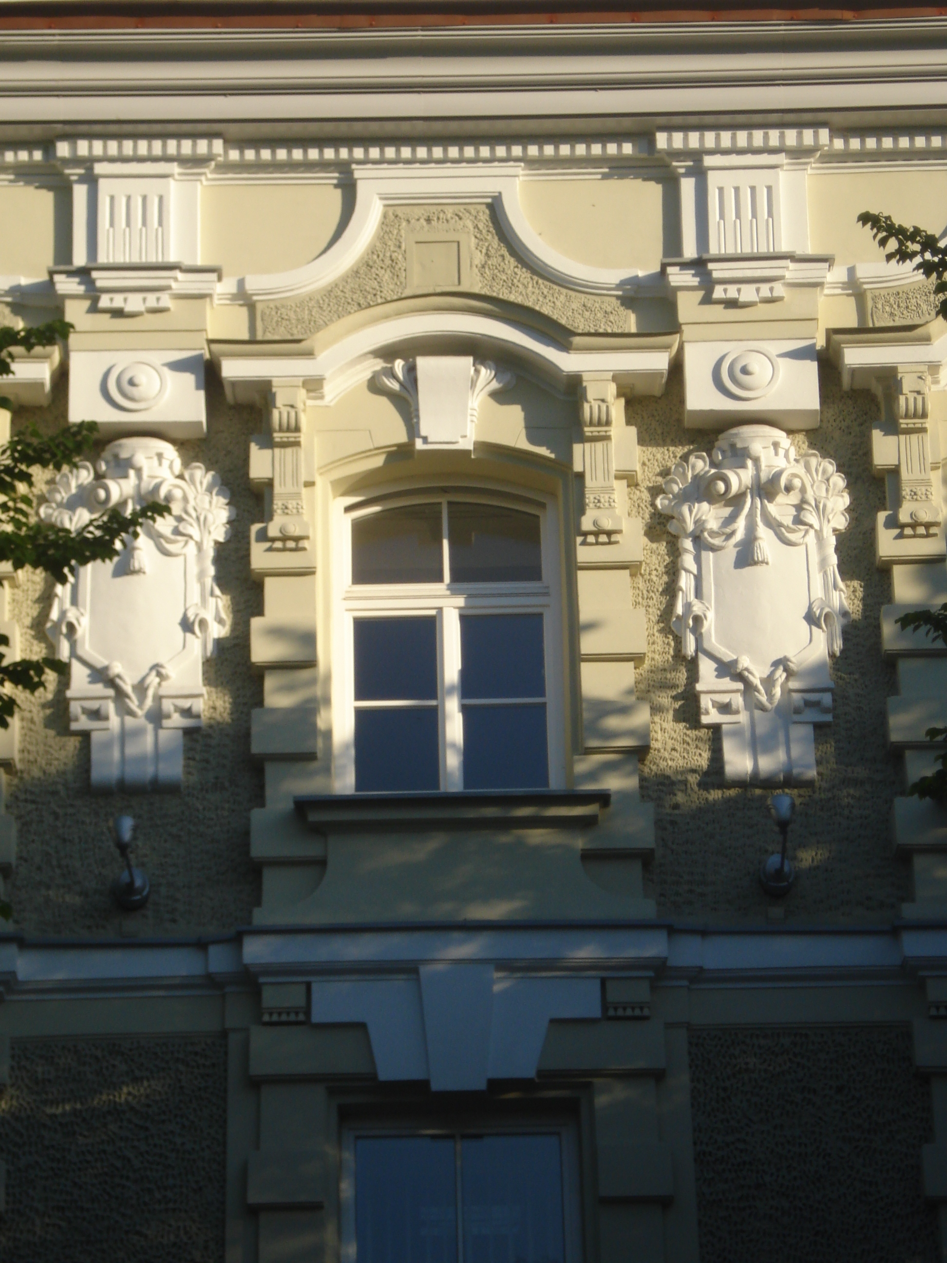 Detail of the facade of the building of the Ministry of the Interior of the Republic of Lithuania. Šventaragio str. 2, Vilnius